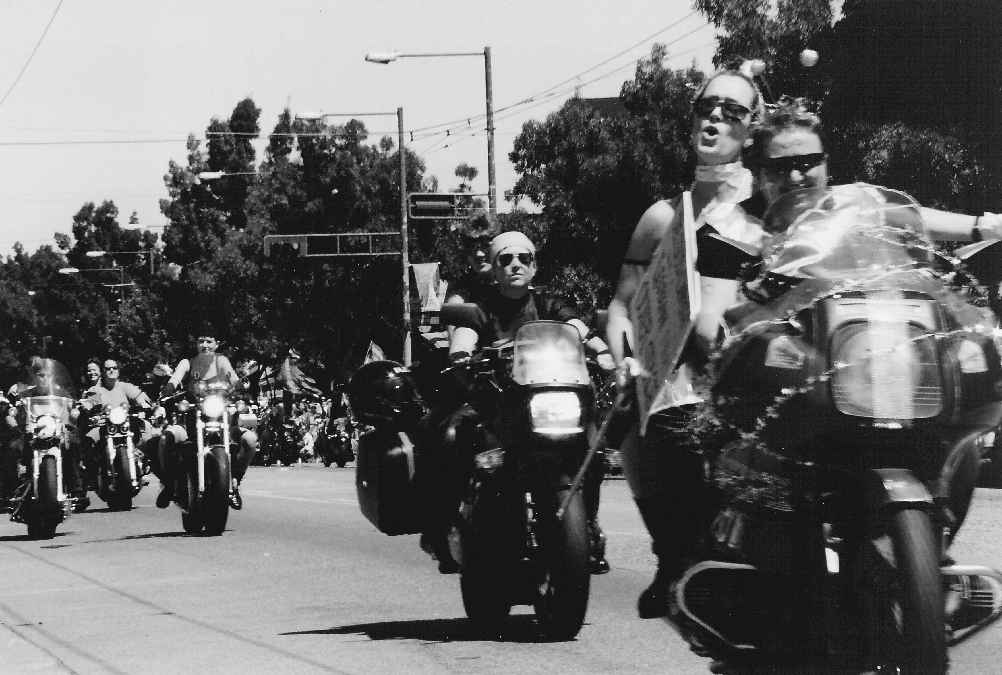 Dykes on Bikes, annual Seattle LGBT Pride parade, Capitol Hill, Seattle, Washington, 1995. This would have been before this parade was relocated to its present downtown route in 2006.